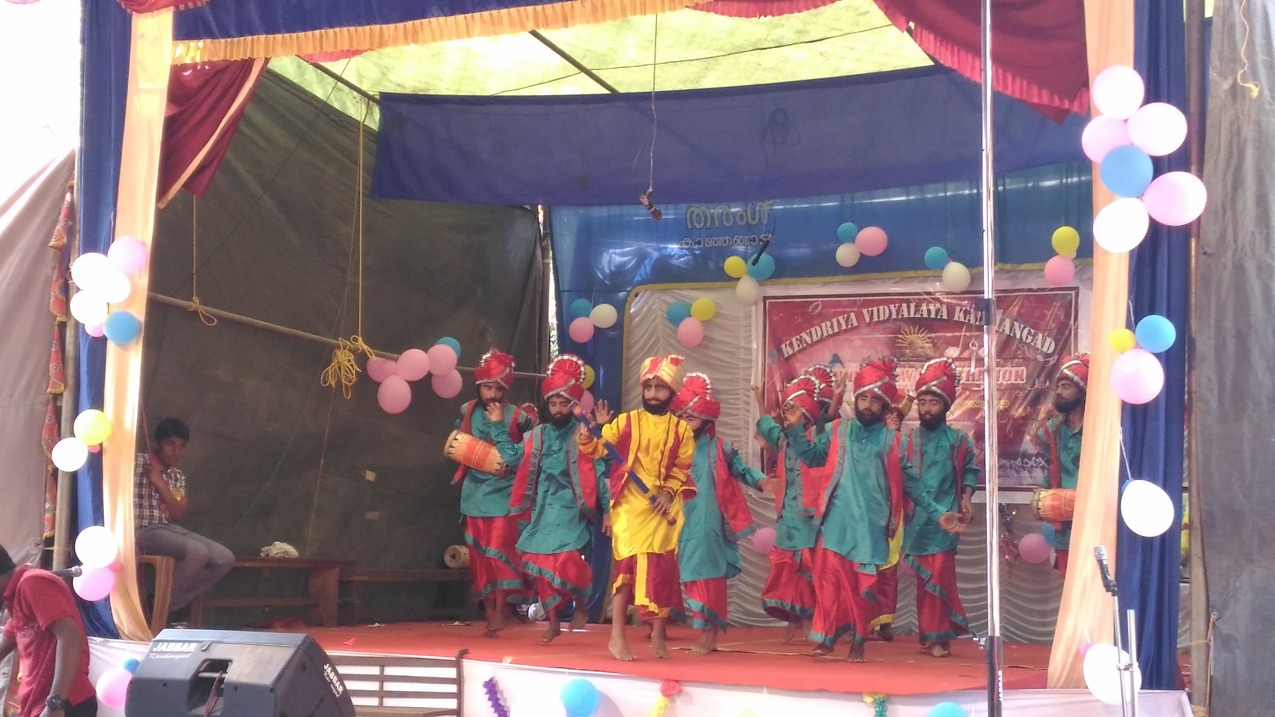 A group of students from KV kanhangad performing Bhangra (dance)